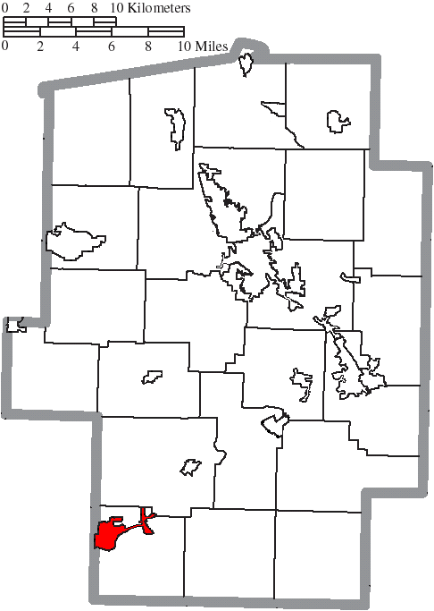 Map of the municipal and township boundaries of Tuscarawas County, Ohio, United States, as of the 2000 census, with the location of the village of Newcomerstown highlighted. Township borders are shown only in unincorporated areas in order to differentiate incorporated and unincorporated areas more clearly.